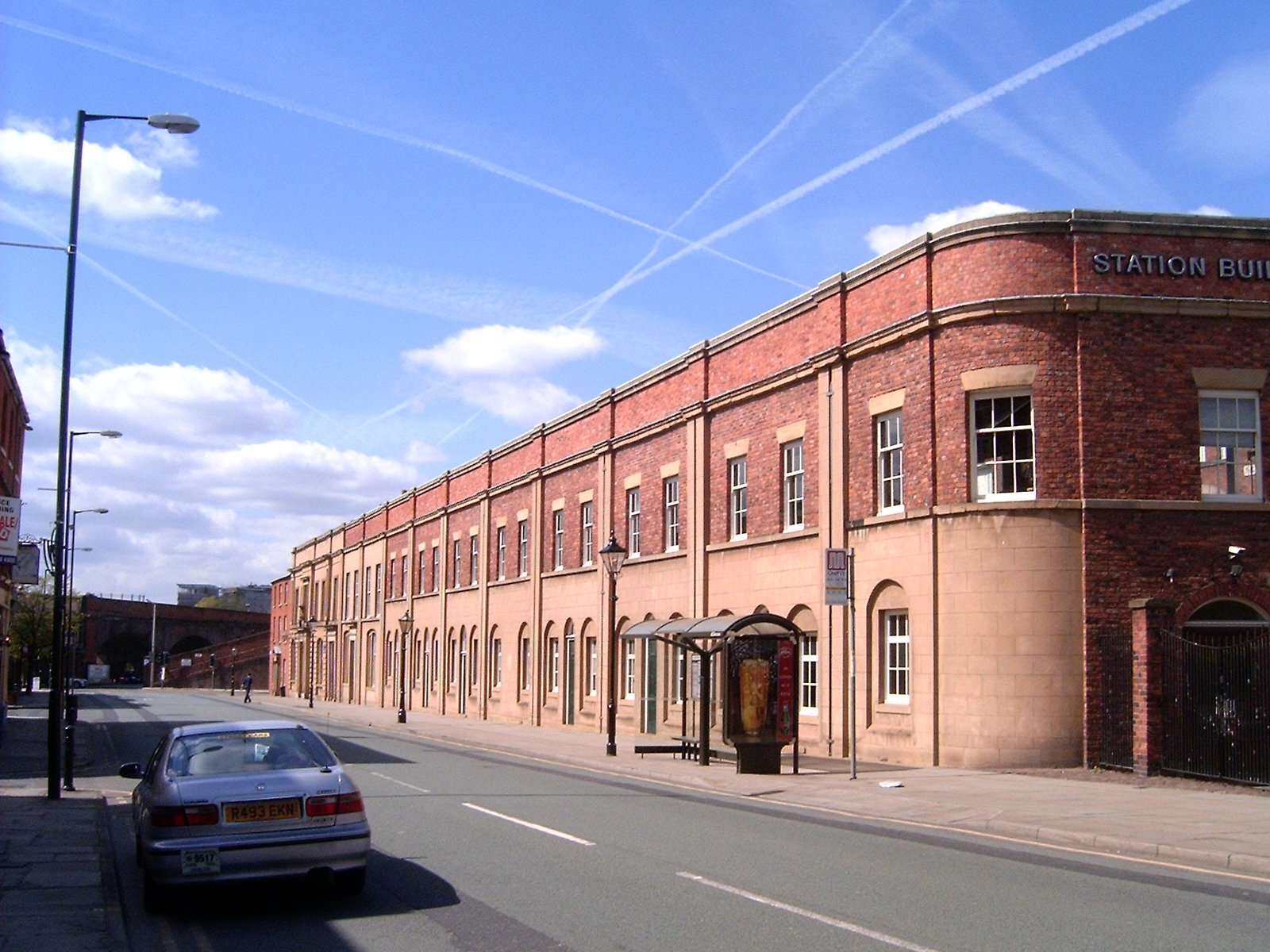 Liverpool Road Station is a former railway station in Manchester, England